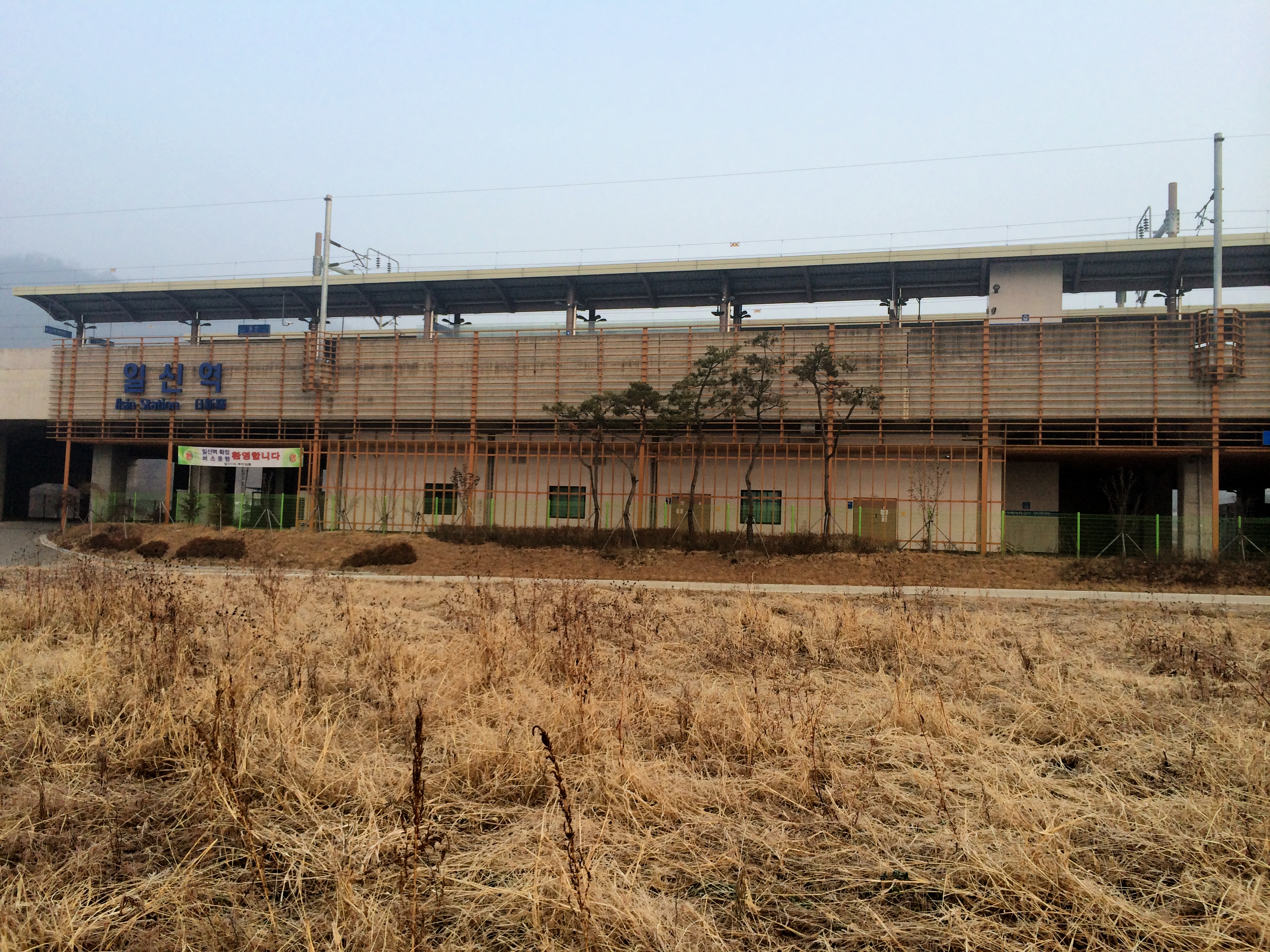 Ilsin Station